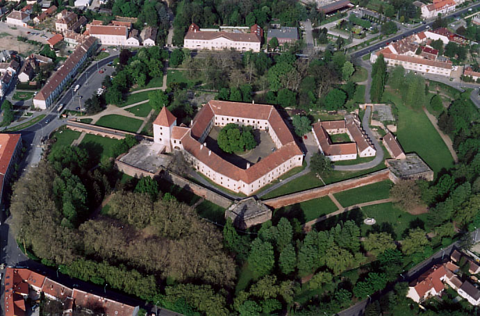 Castle - Sárvár - Hungary - Europe